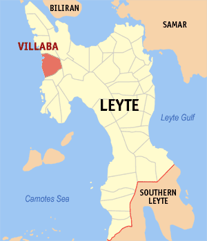 Map of Leyte showing the location of Villaba